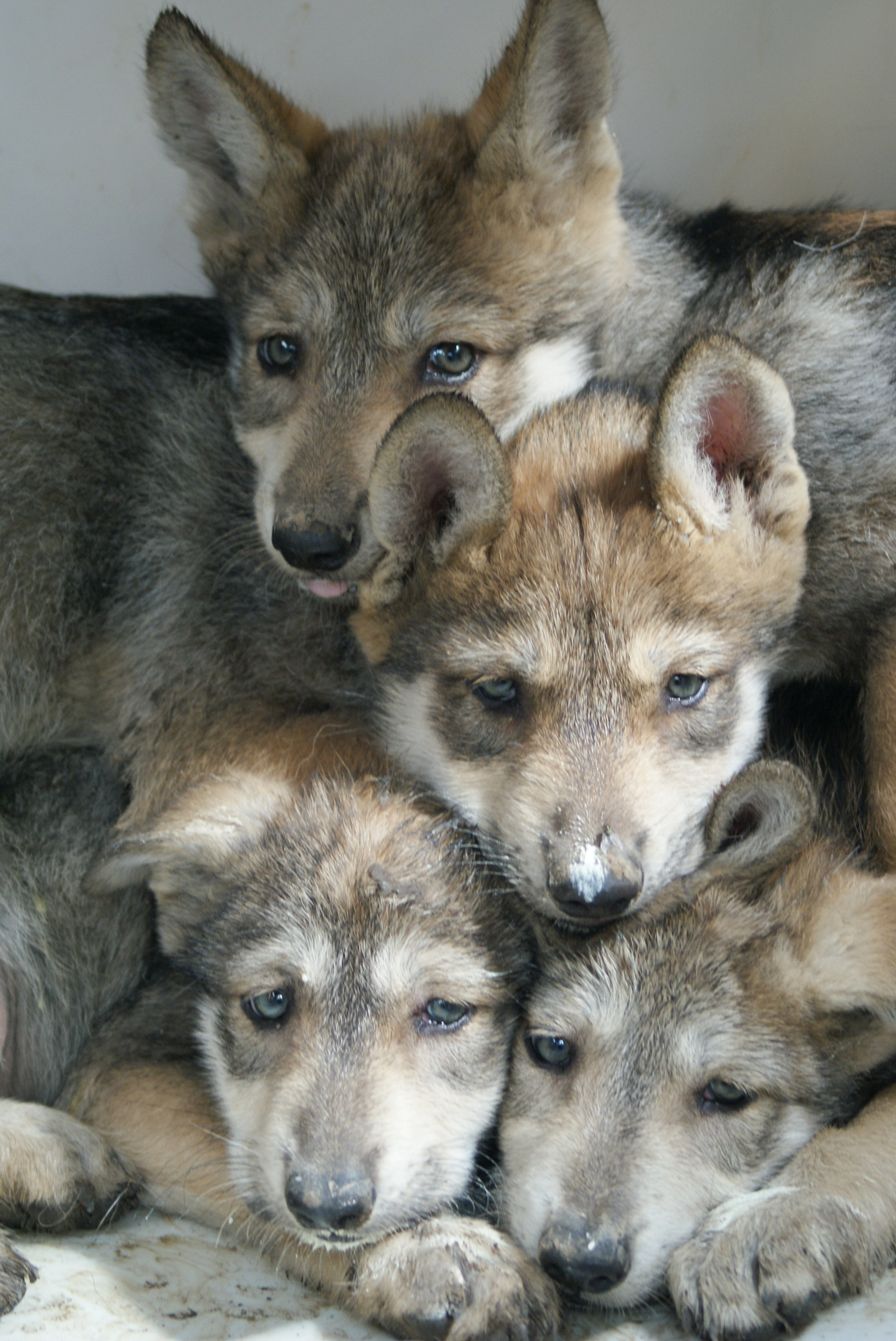 Lobo Mexicano. Zoológico de Chapultepec